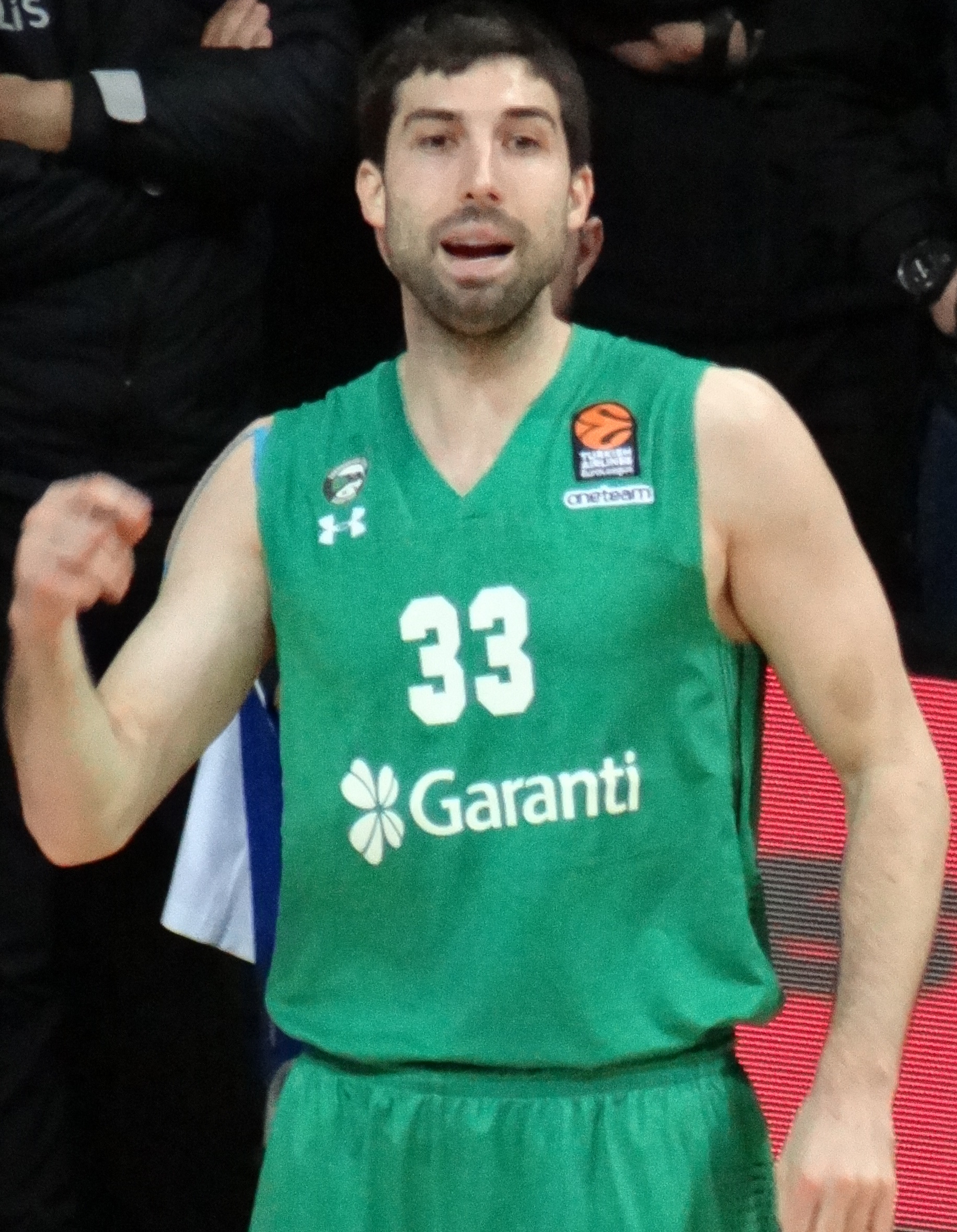 Jon Diebler 33 Darüşşafaka Tekfen 20181120